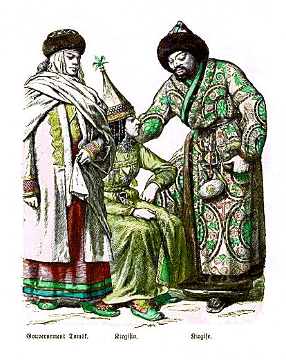 A woman from Tomsk, and a Kighiz couple